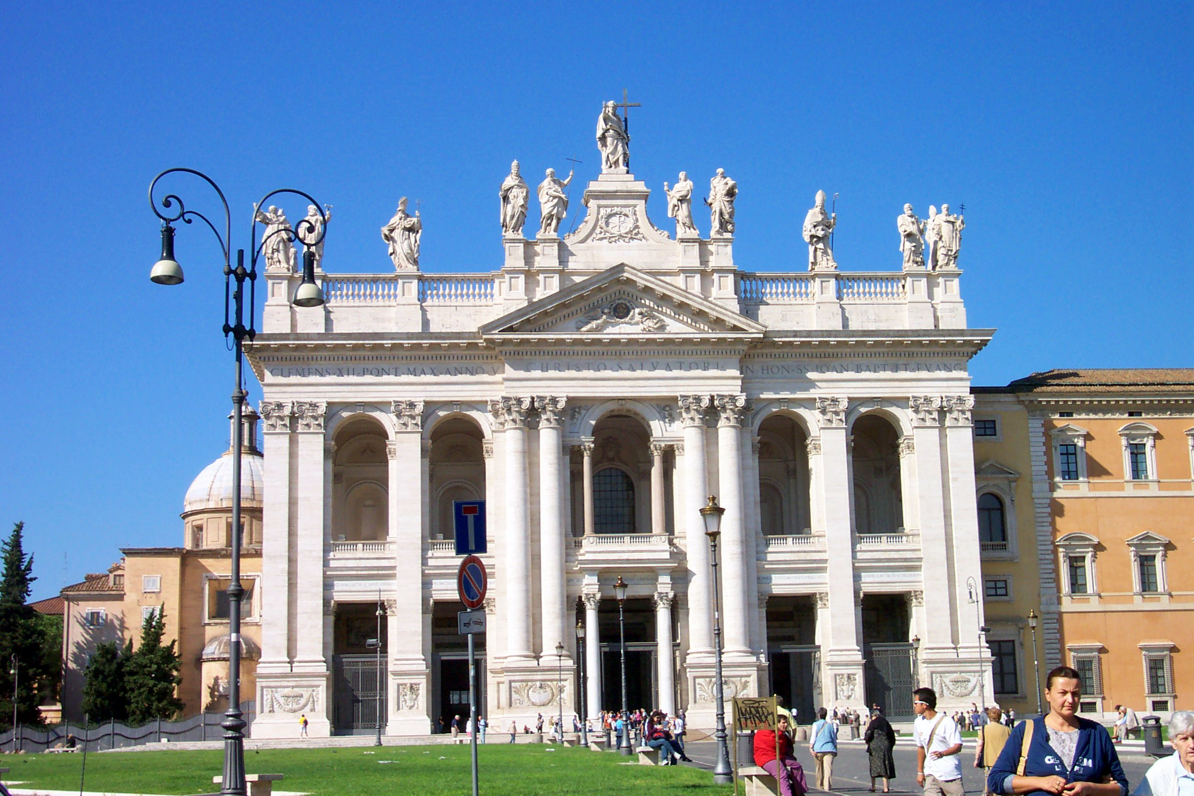 Main façade of the Basilica of St. John Lateran (Rome) by Alessandro Galilei, 1735.